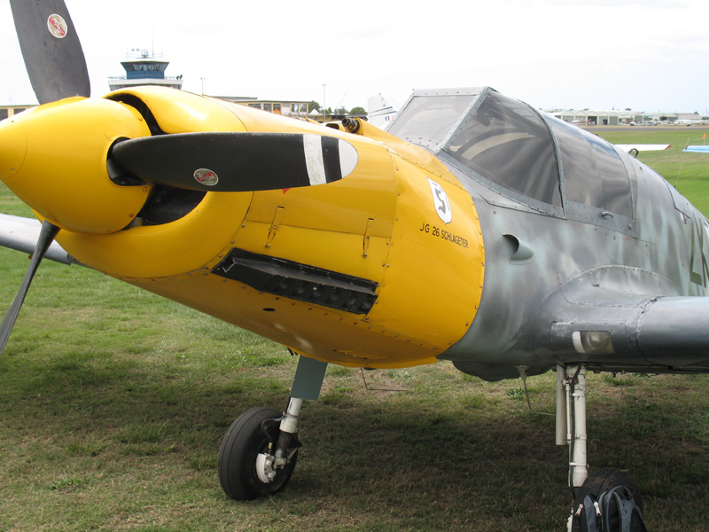 Messerschmitt Bf 108 replica at the 2008 Tauranga City Airshow in New Zealand.